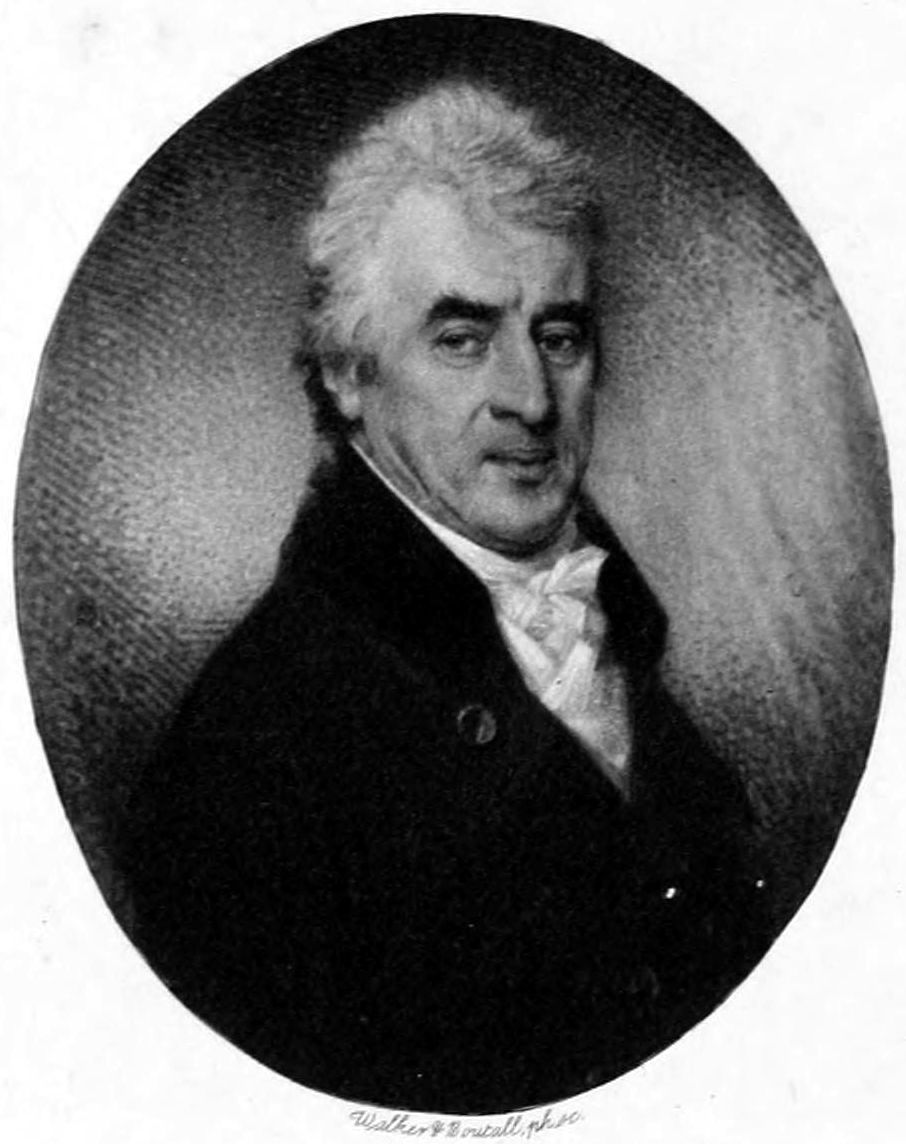 Arthur Young (economist)